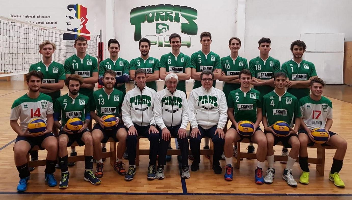 Turris 2019